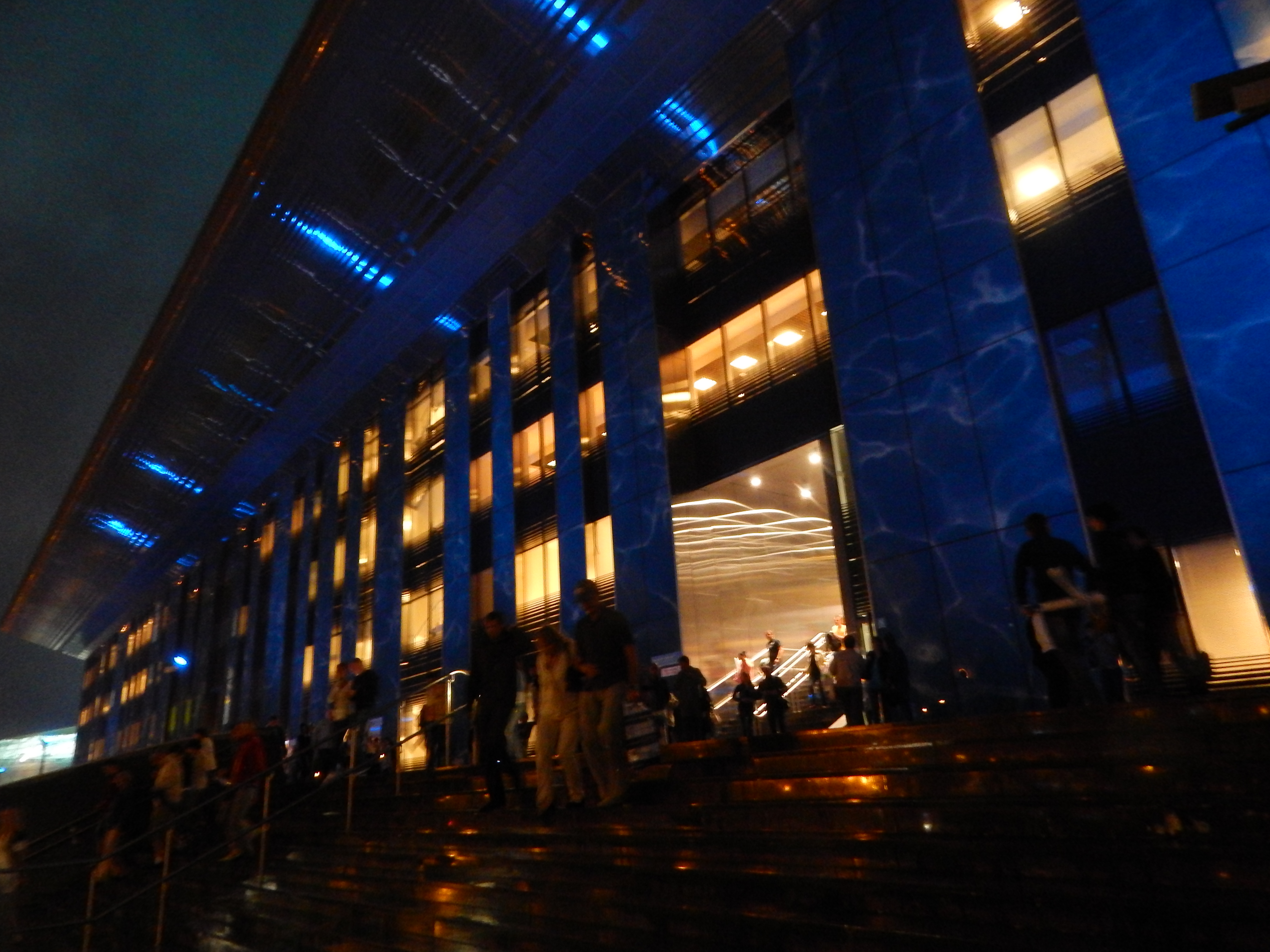 Kazan Aquatics Palace during World Champs